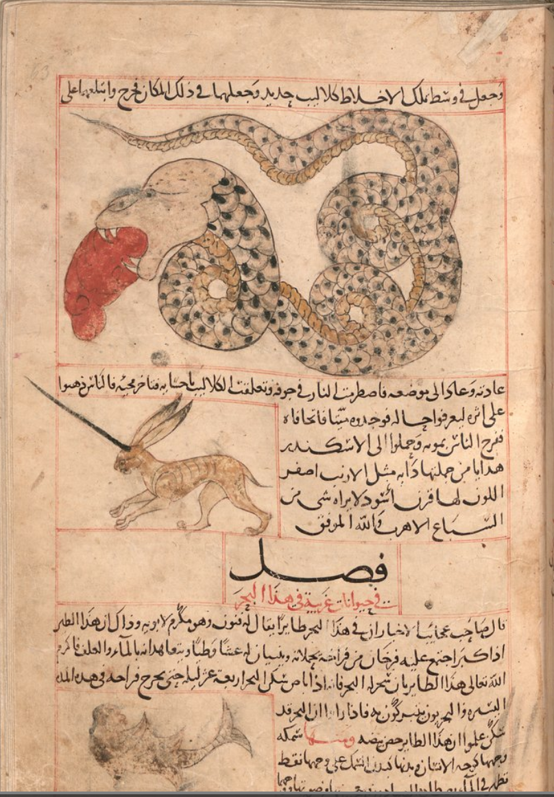 Page depicting an Al-Miraj with a serpent, most likely from the tale of Alexander the Great defeating the serpent and receiving the Al-Miraj as a gift.